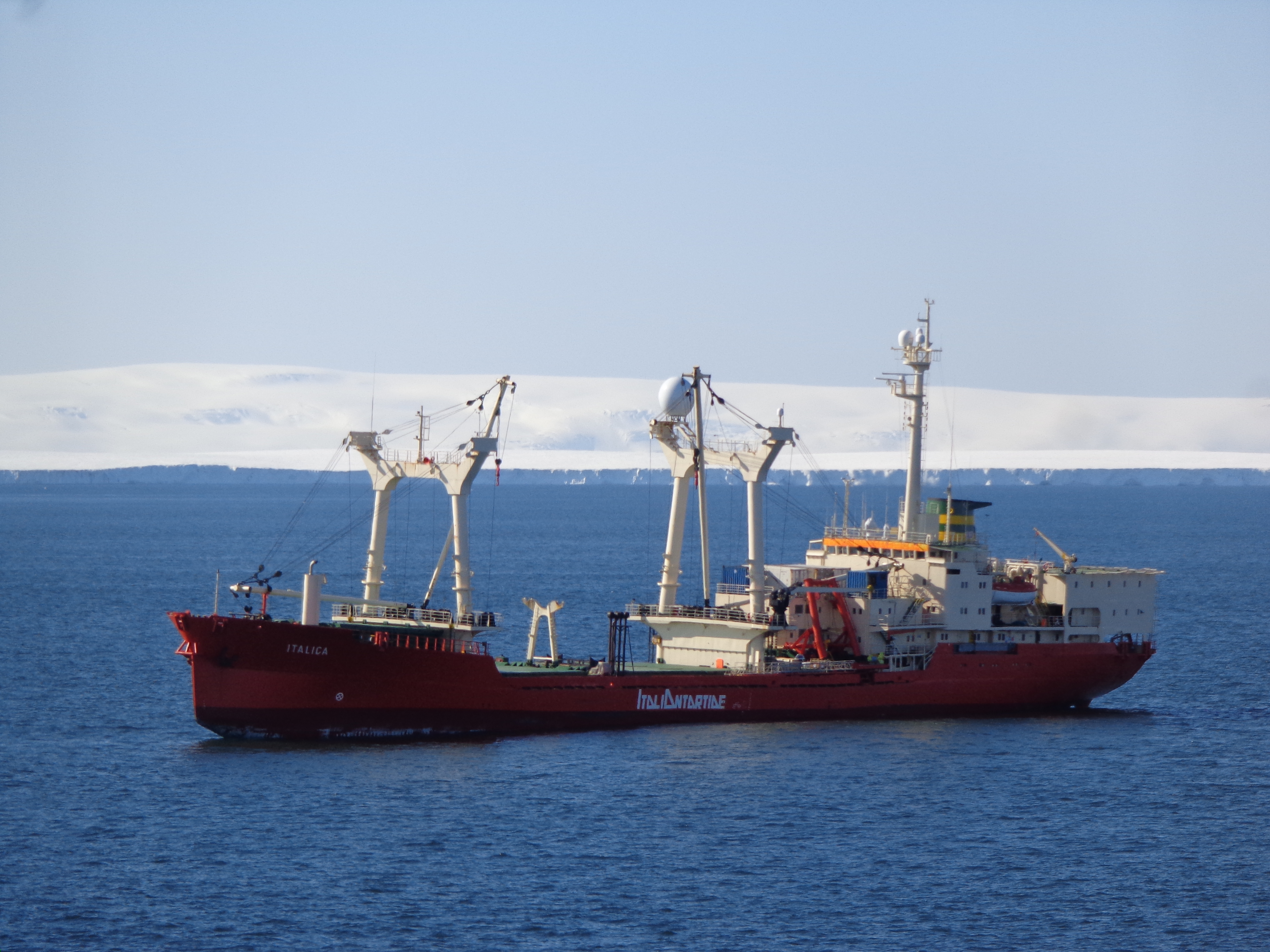 Ship "Italica", Ross Sea, Austral Summer 2016